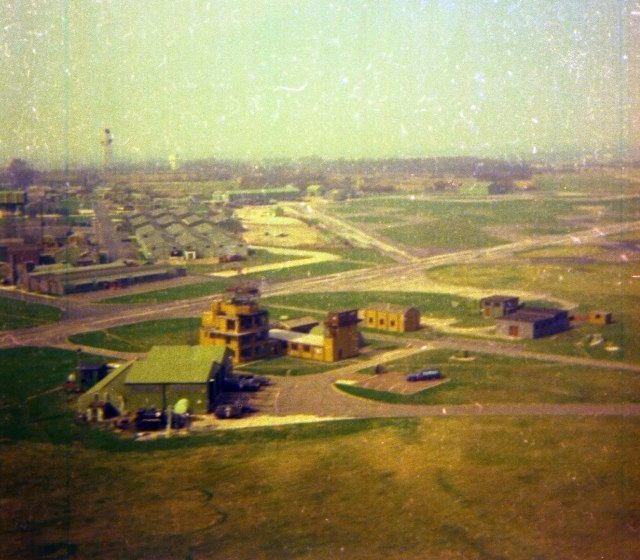 RAF Wethersfield, in Essex, England (UK), circa 1979.